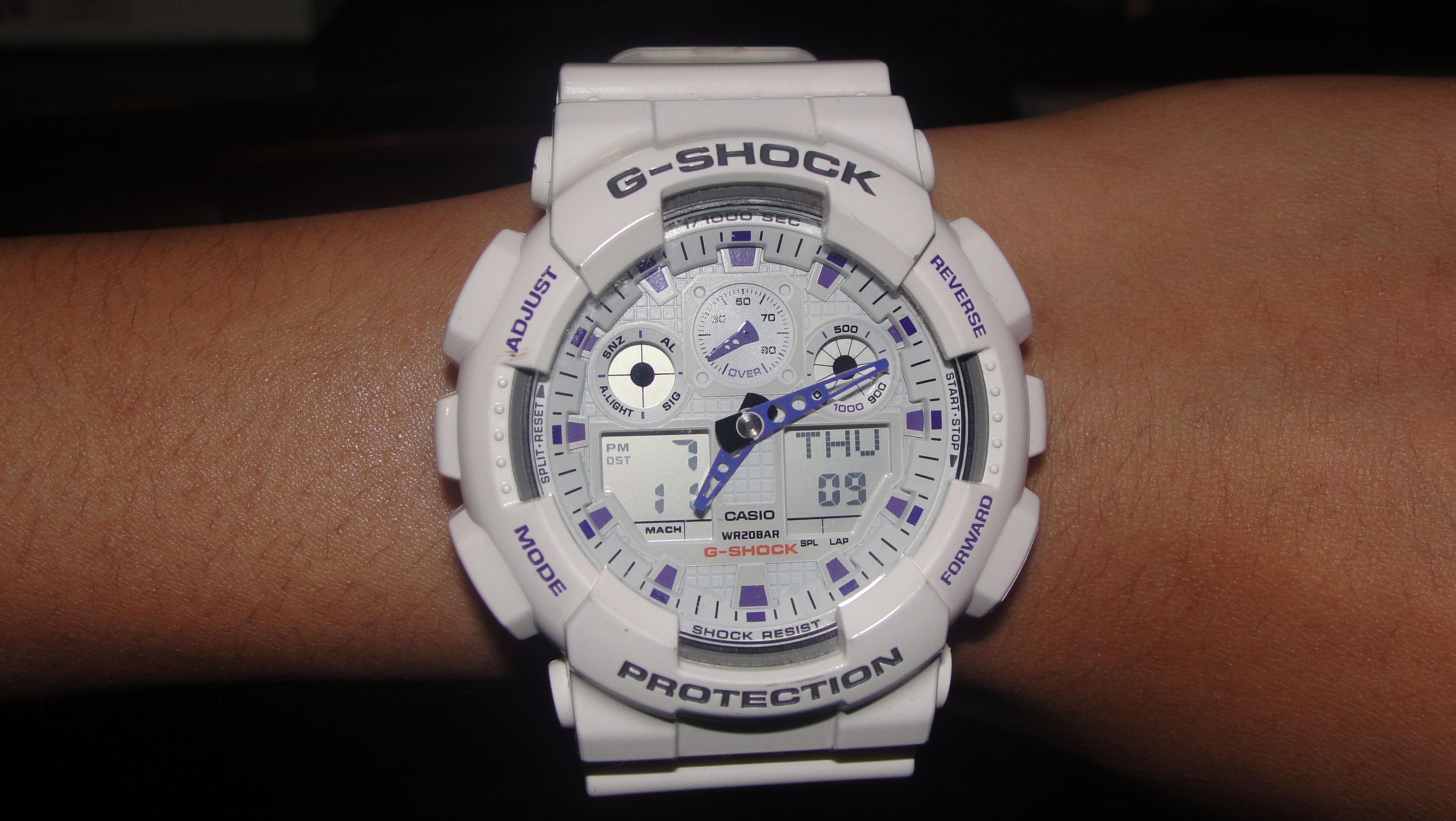 a photo of my g shock taken by me.